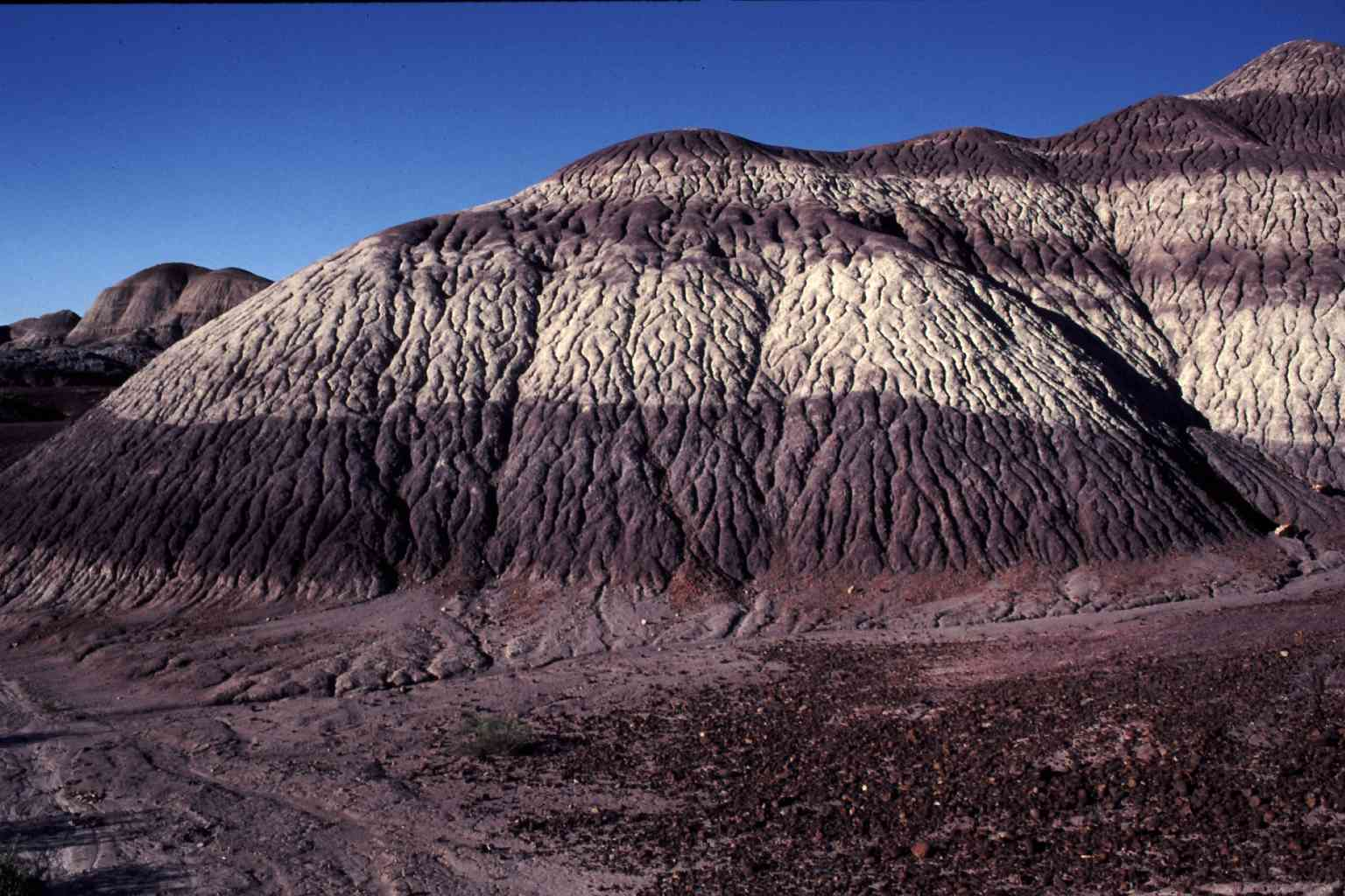 Petrified Forest National Park, Triassic Sediments, Arizona, USA